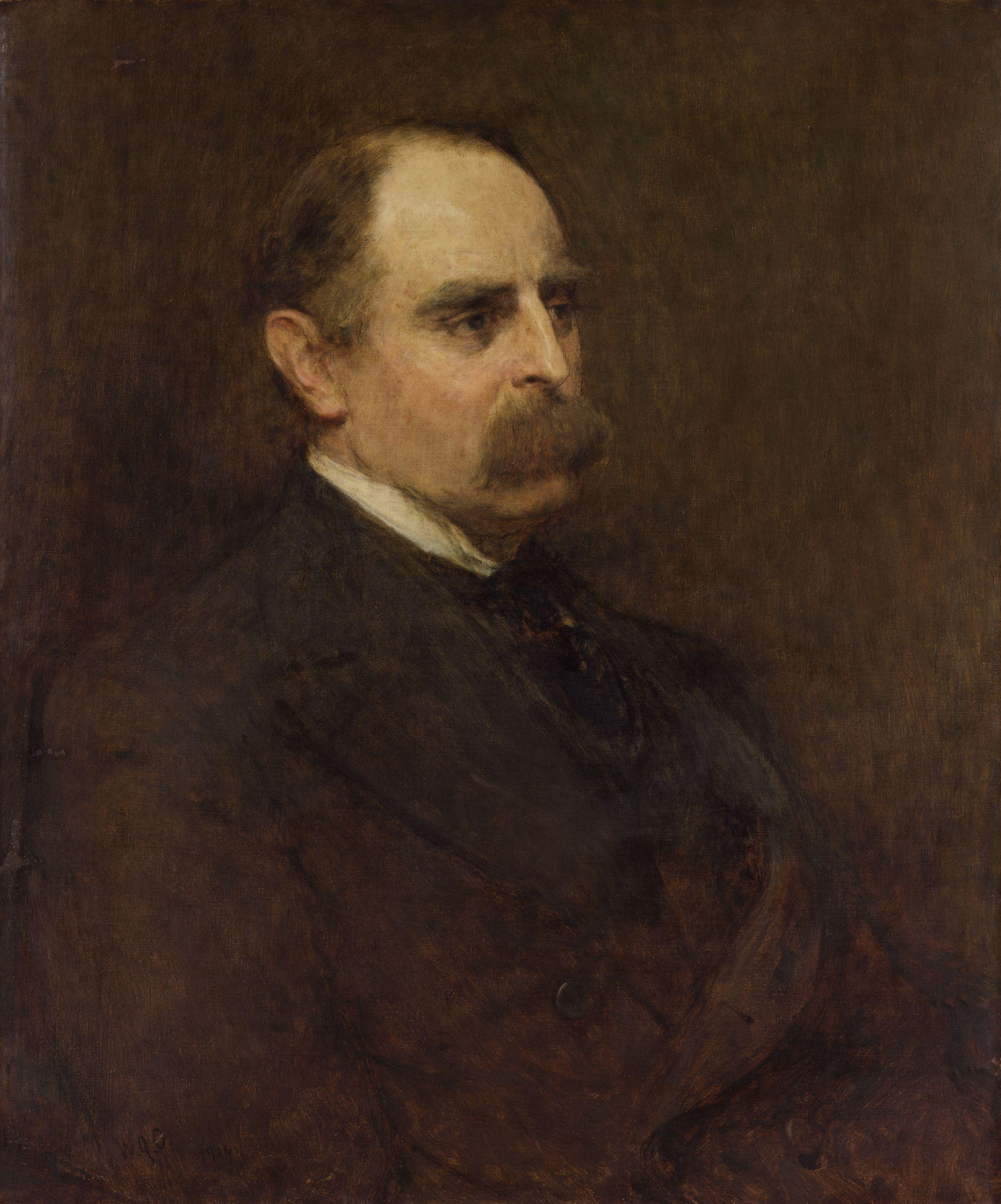 Sir Francis Edward Younghusband, by Sir William Quiller Orchardson (died 1910), given to the National Portrait Gallery, London in 1944. All images in this batch have been confirmed as author died before 1939 according to the official death date listed by the NPG.